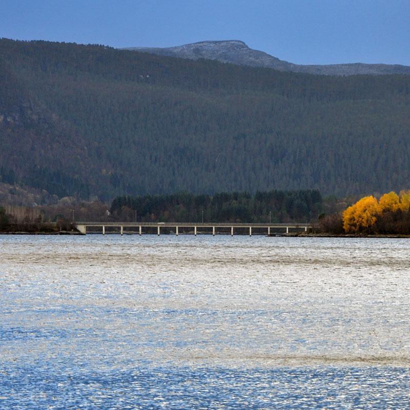 Taftasund bridge seen from north.